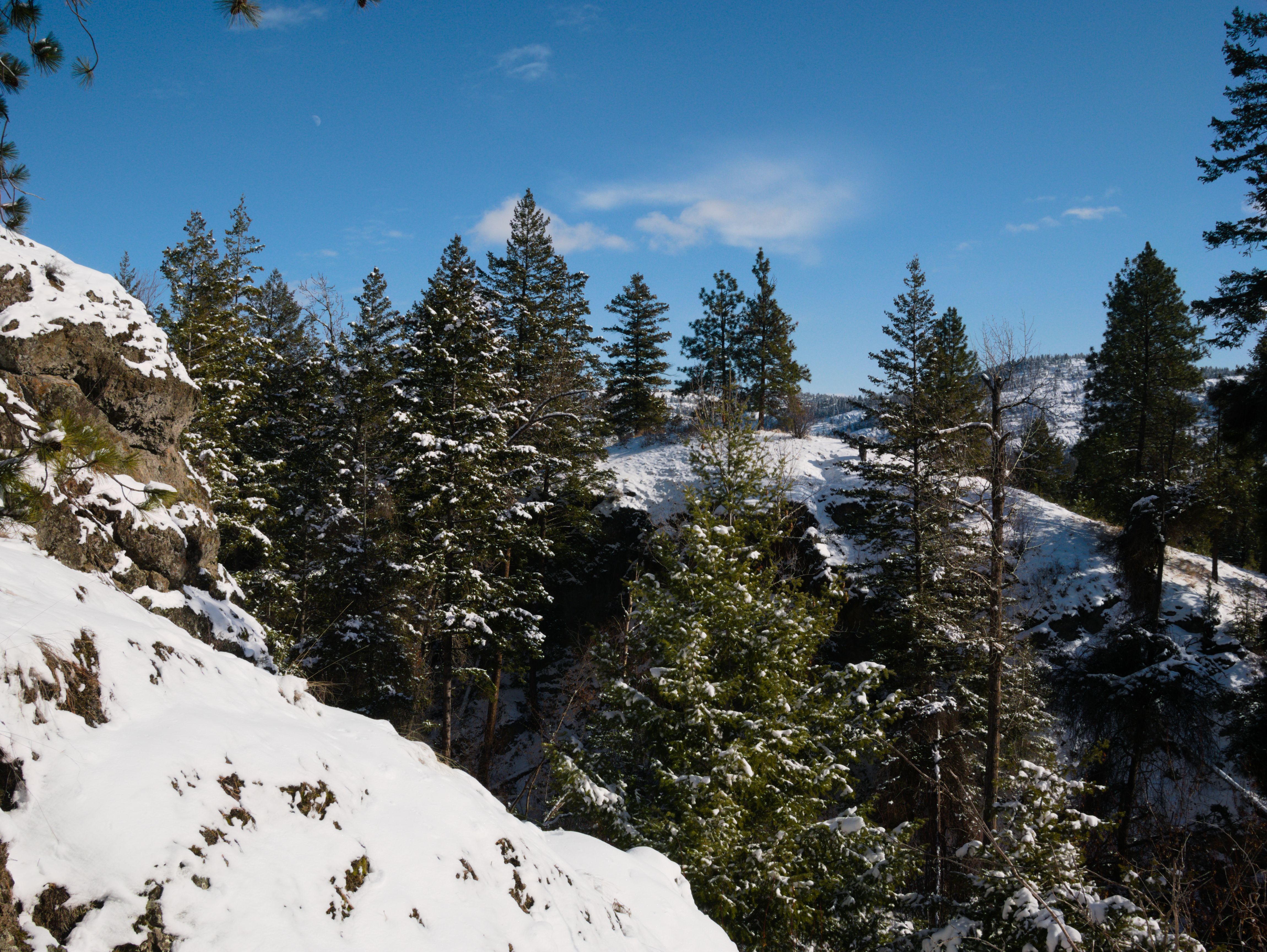 Winter lookout towards the moon rising over the peaks of Central Okanagan, from Bear Creek Provincial Park, British Columbia, Canada